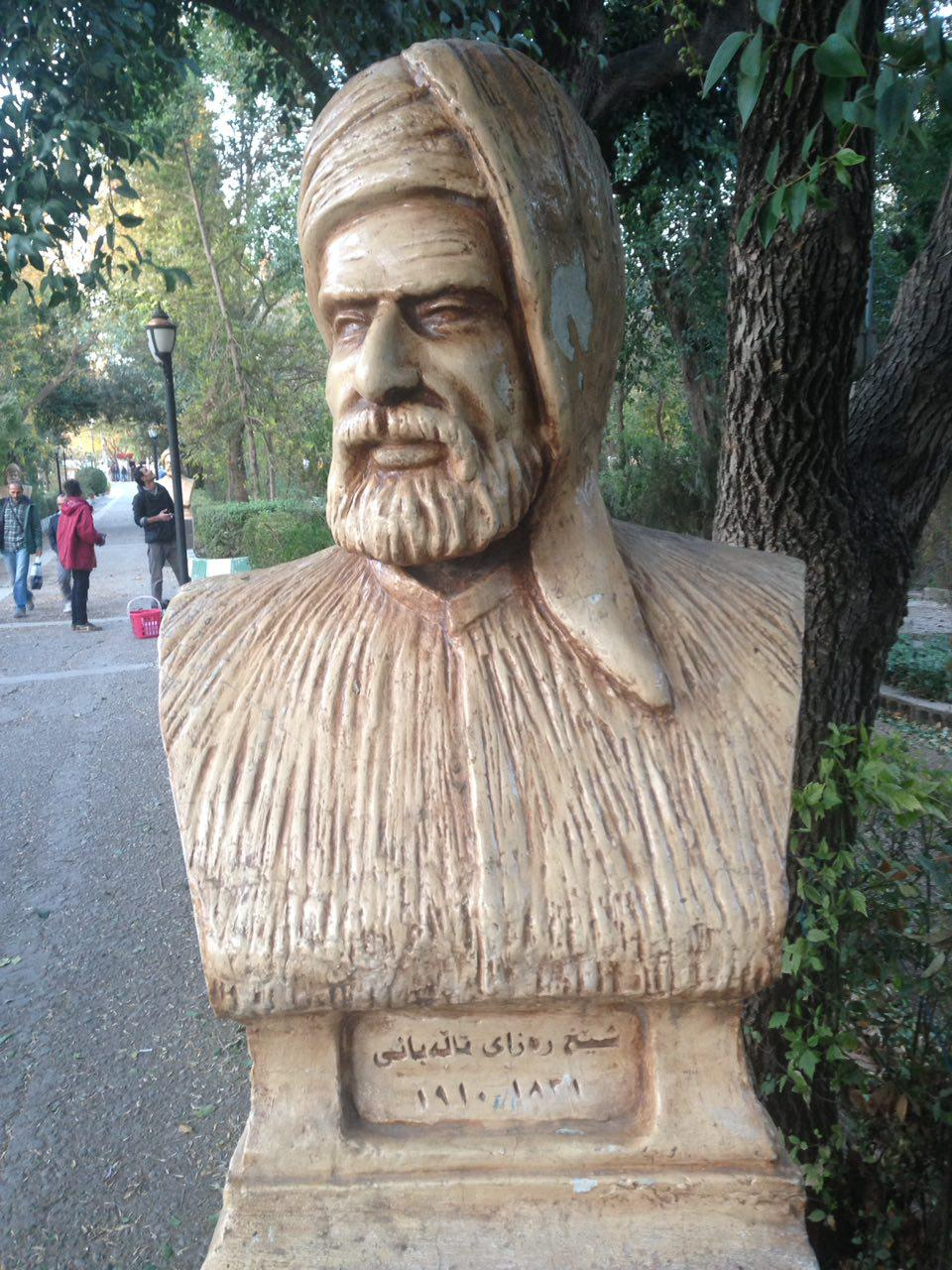 Kurdish Poet Statue Iraqi Kurdistan